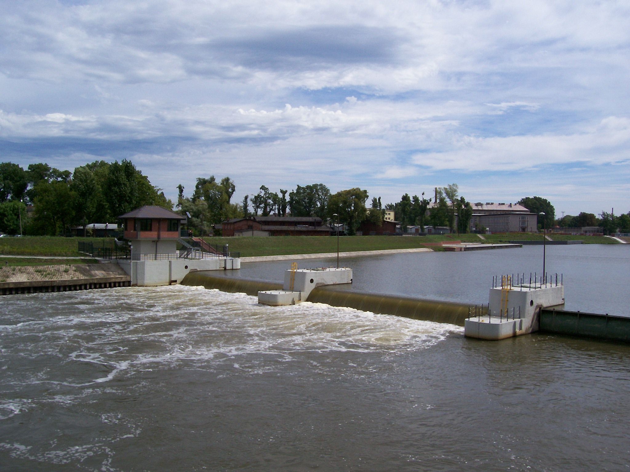 The weir in Opole-Bolko Island, Poland.